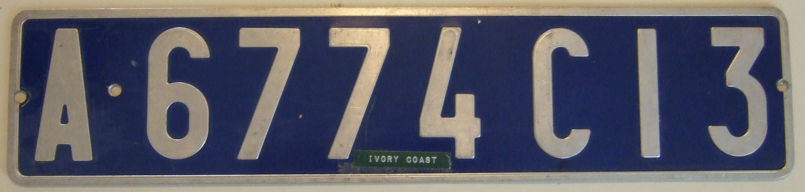 Silver on reflective blue Abidjan, Ivory Coast license plate 1970's